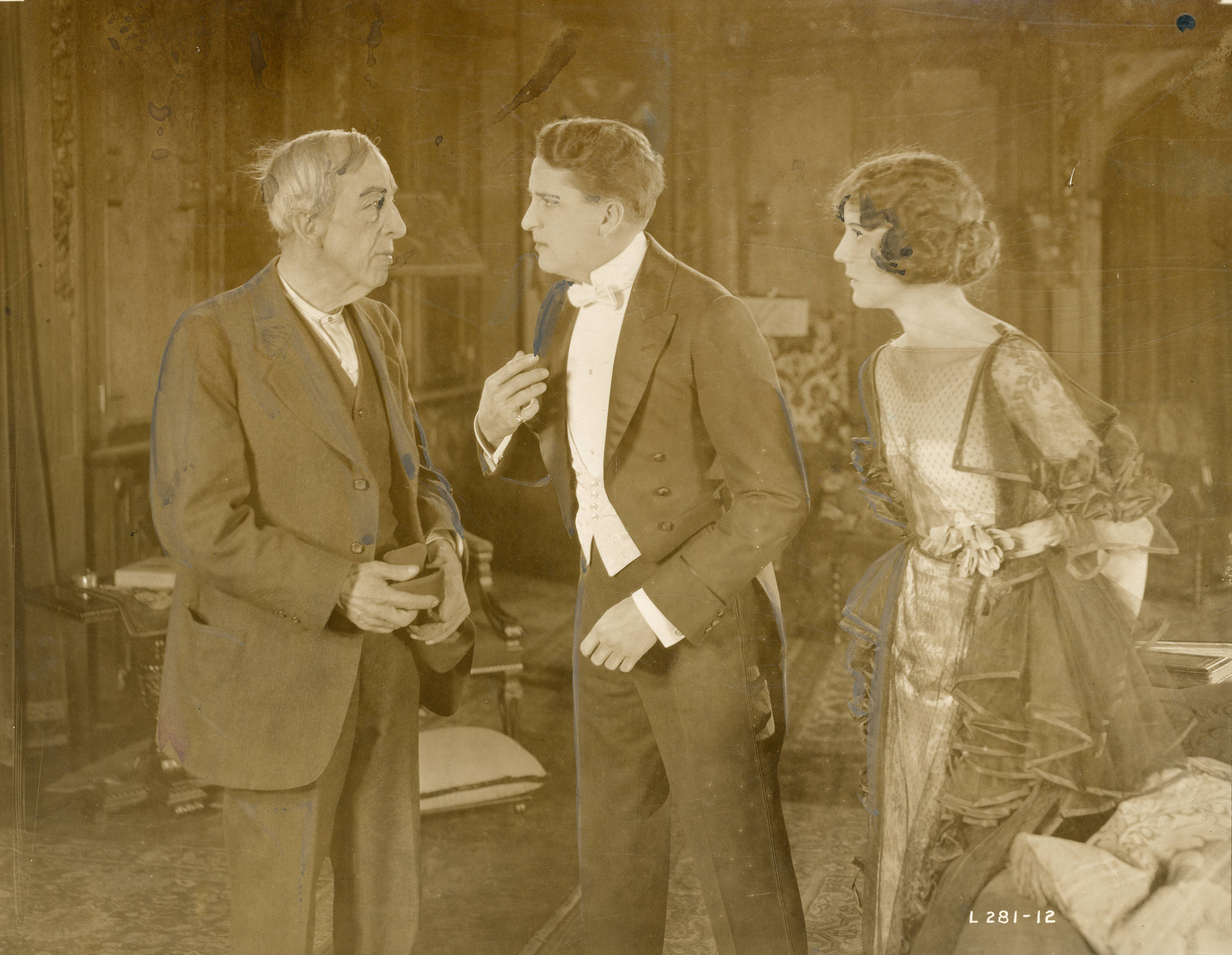 A scene from the American comedy film Something to Do (1919), which played at the Coliseum Theater, Seattle. Includes Bryant Washburn and Robert Brower. Date stamped Ap. 28, 1919. Subjects: motion pictures, actors